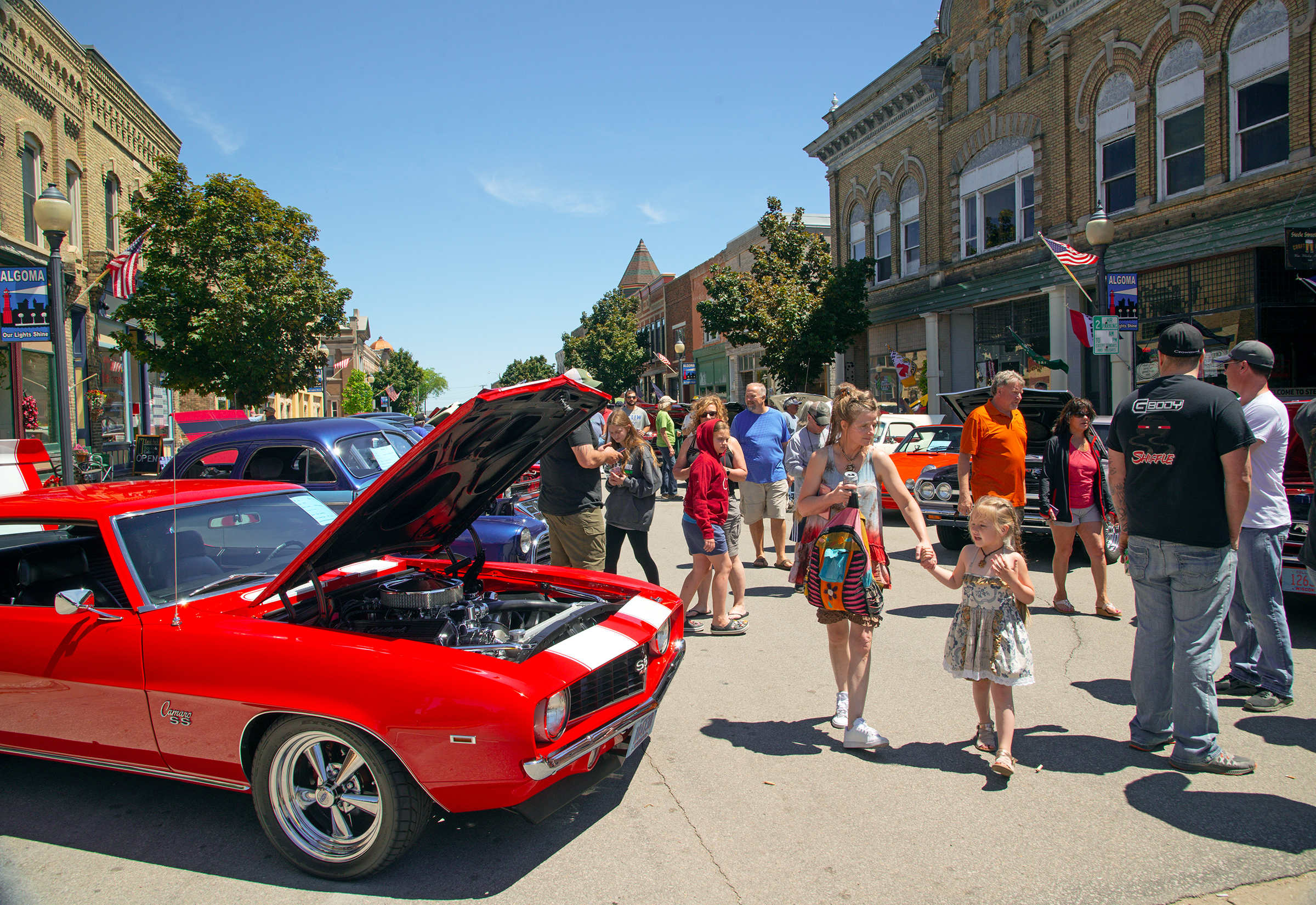 Annual Car Show in downtown Algoma, WI in the downtown area